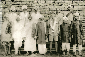 Kaderbad Narasinga Rao (in the center) with Charles Philip Brown (with garland) Collector of Cuddapah, India